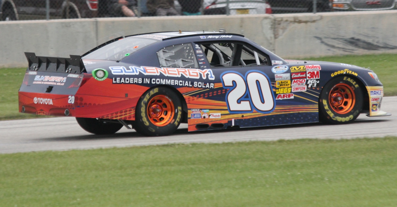 The passenger side of Kenny Habul Nationwide car during the 2014 Gardner Denver 200 at Road America. Taken racing in turns 13.